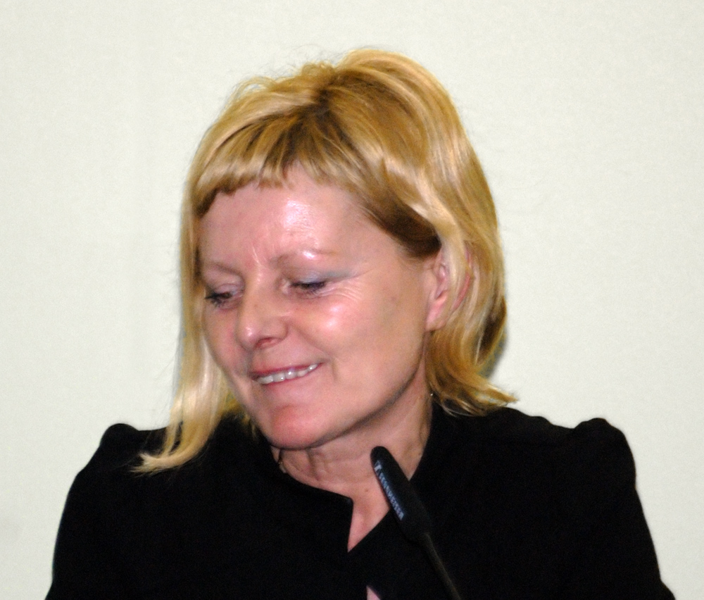 This image shows Cornelia Schleime, a German artist, in the year 2008.